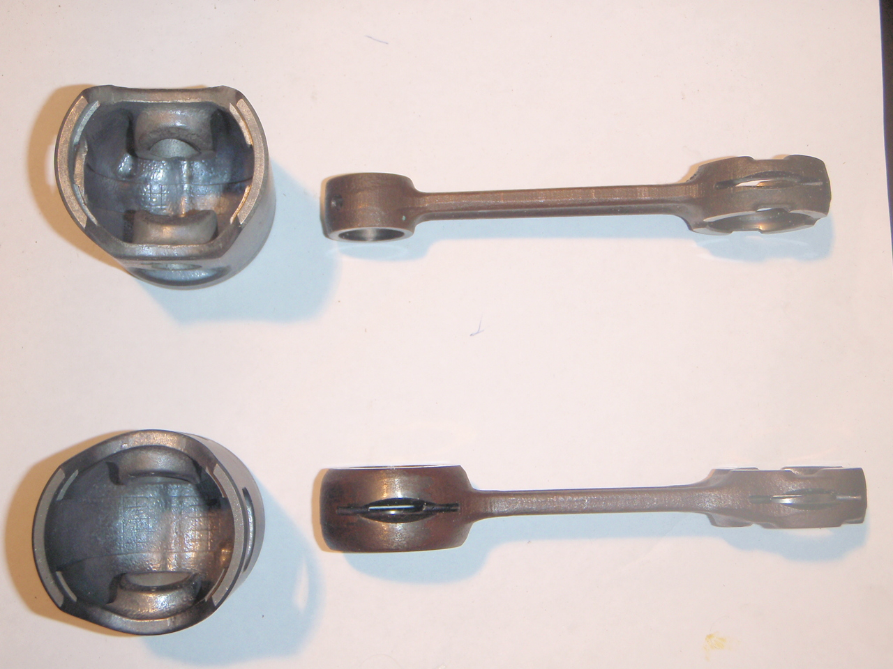 Side view of pistons and conrods used in the Honda MVX250F motorcycle